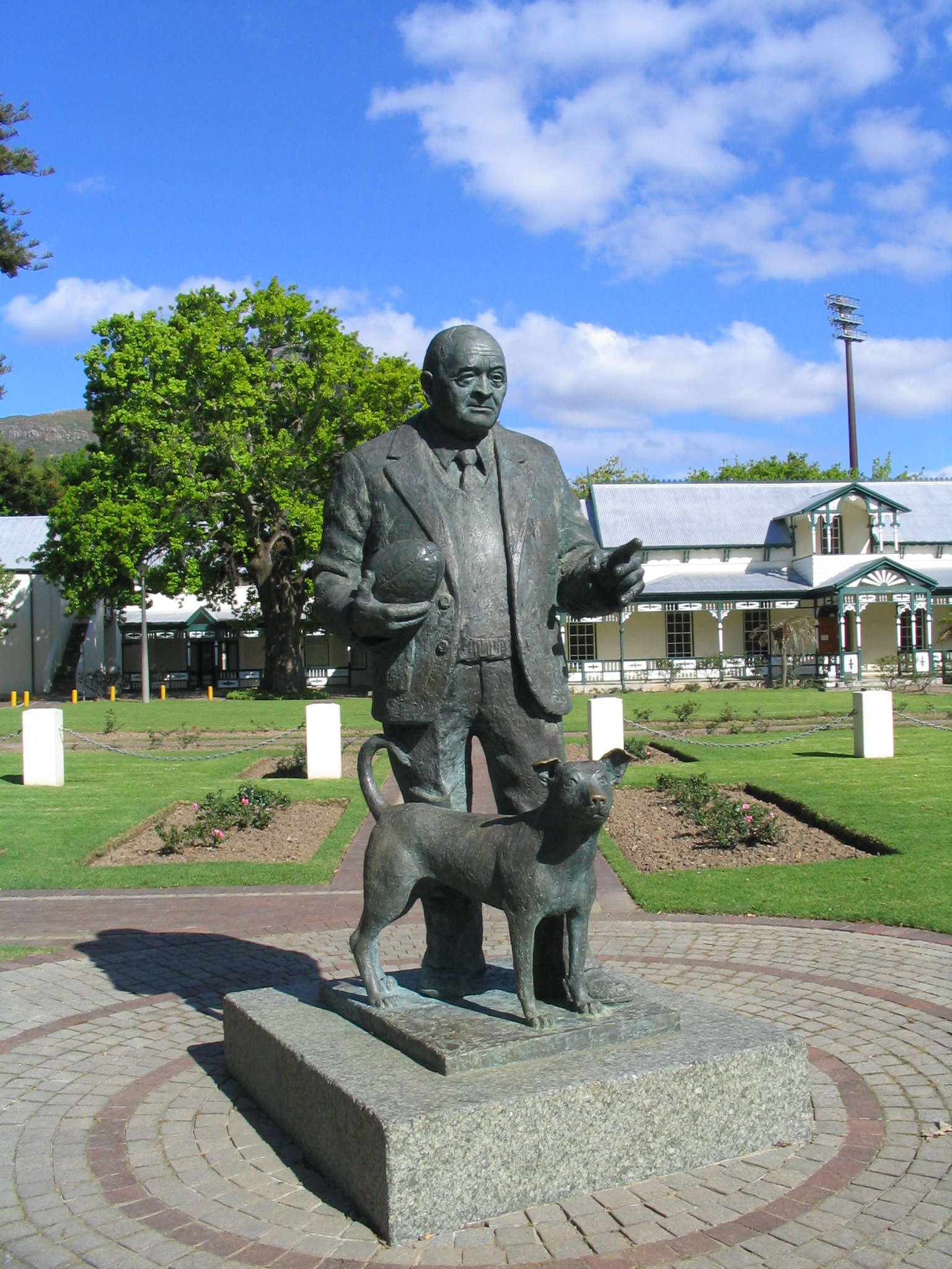 Statue of Danie Craven in front of Jannie Marais House, Coetzenburg, Noordwal East, Stellenbosch. This media shows a South African Protected Site with SAHRA file reference 9/2/084/0010.